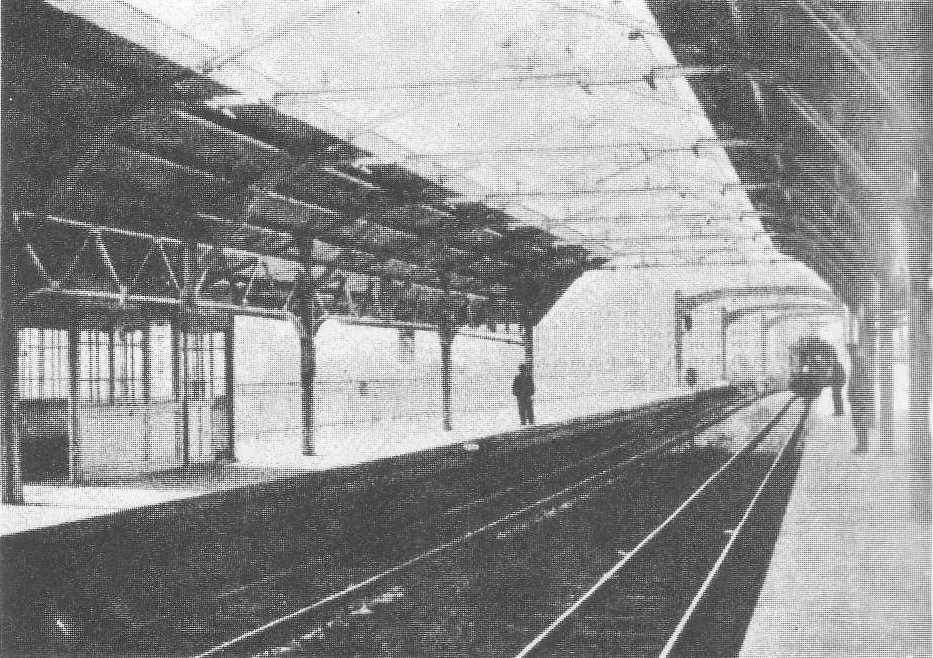 Sumida Koen Station (Abandoned railway station)、Tobu Isesaki Line.